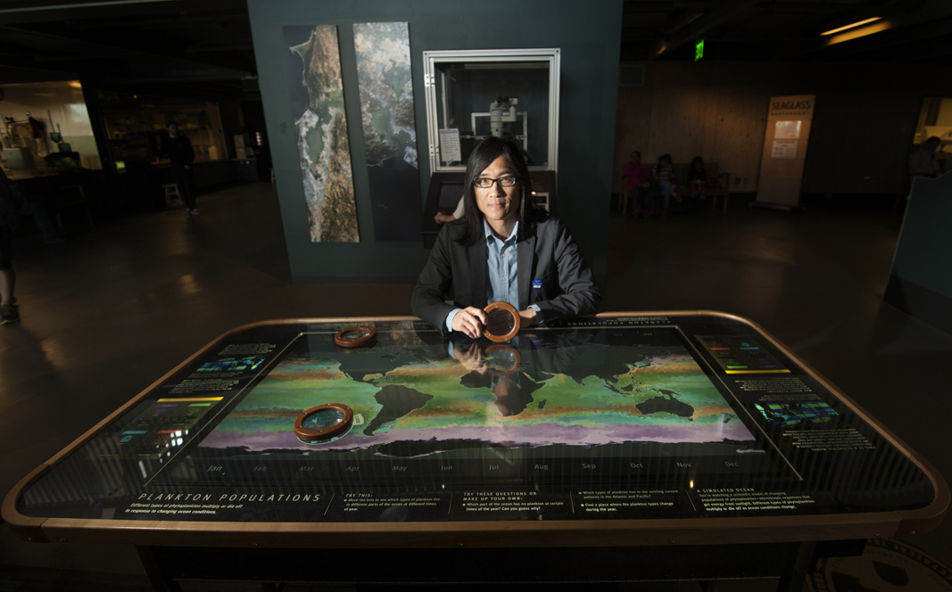 Kwan-Liu Ma, a UC Davis professor of computer science, sits with his World Plankton Populations table at the Exploratorium in San Francisco, CA on Friday, April 17, 2014. The interactive table shows users the small creatures and facts.